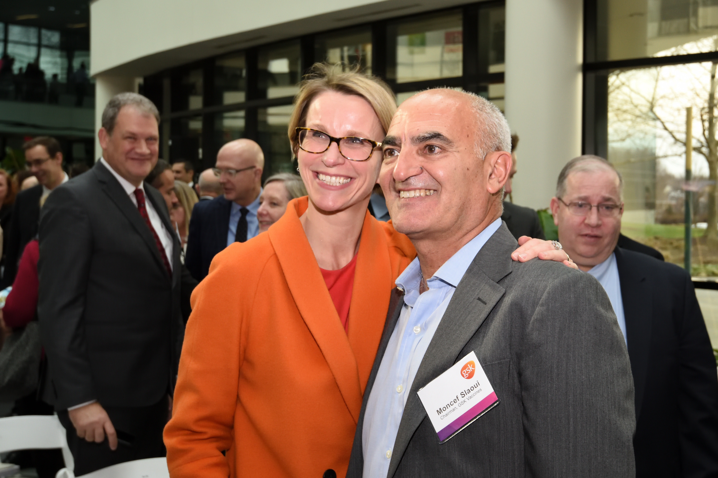 Lt. Governor Rutherford Participates In GlaxoSmithKline Ribbon Cutting Ceremony by Anthony DePanise at 14200 Shady Grove Rd Rockville MD 20850